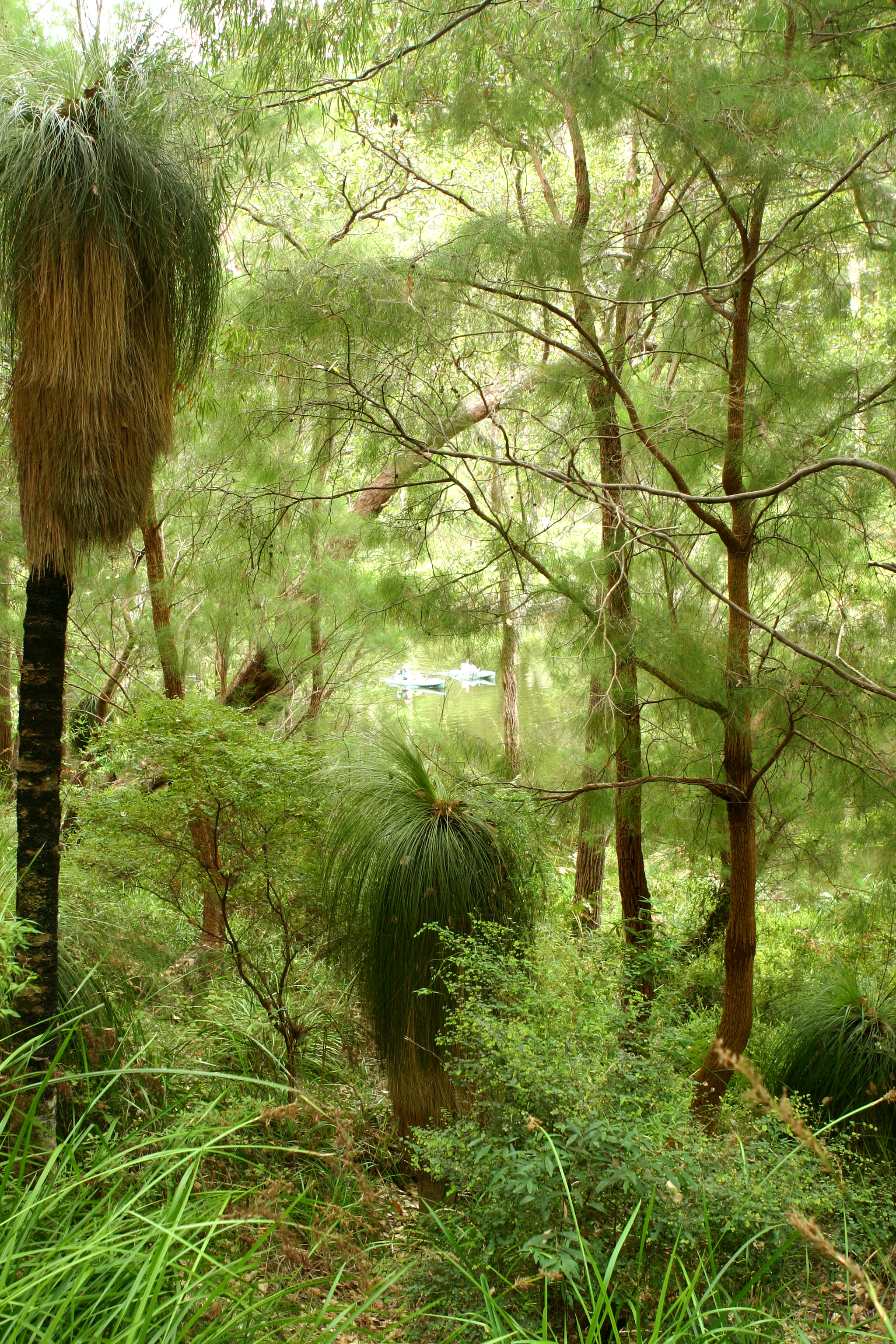 Frankland River near Monastery Landing, between Walpole and Denmark, Western Australia.